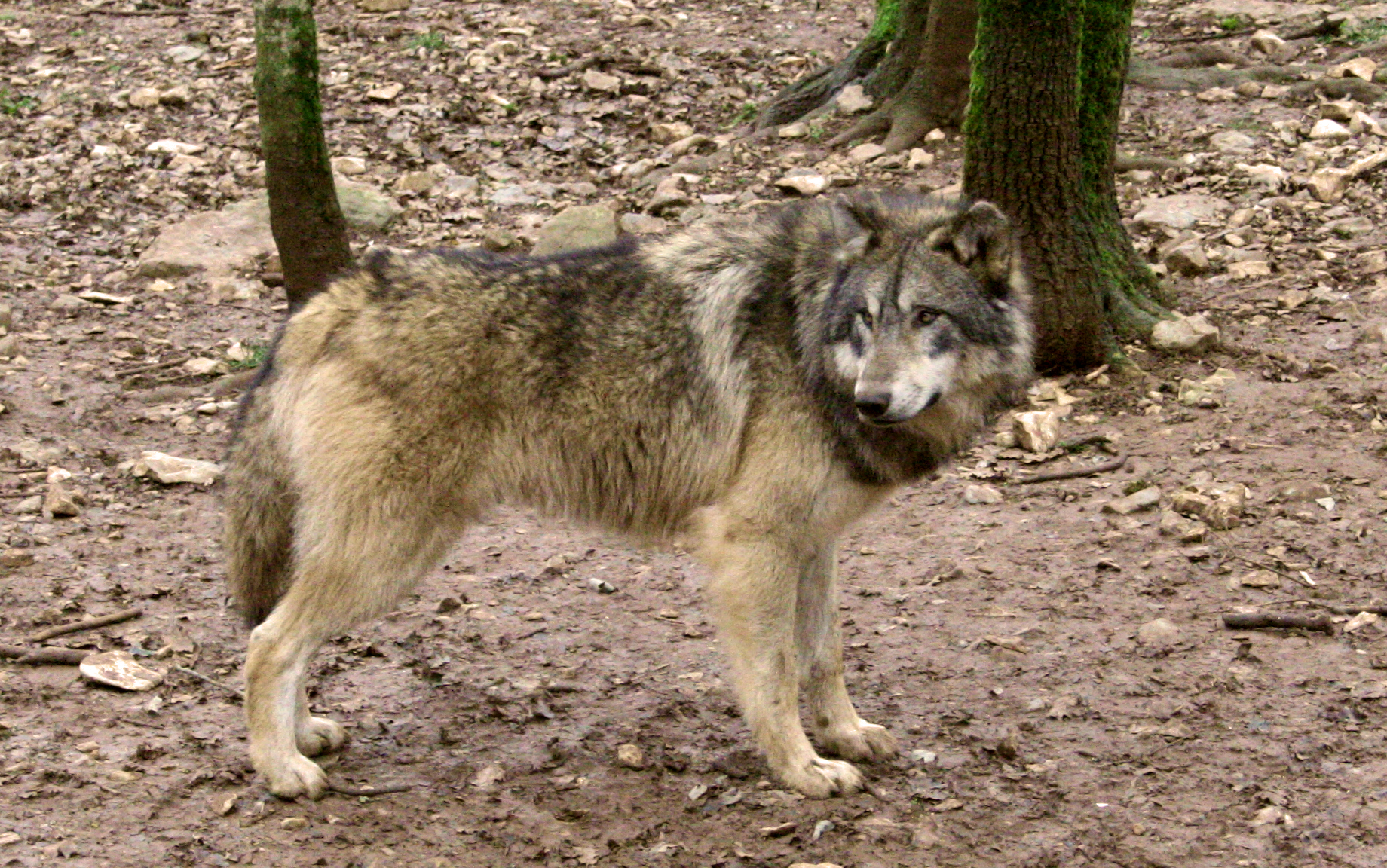 Canis lupus, wolf / loup, parc animalier de Gramat (Lot) / Gramat animal parc (Lot, France)